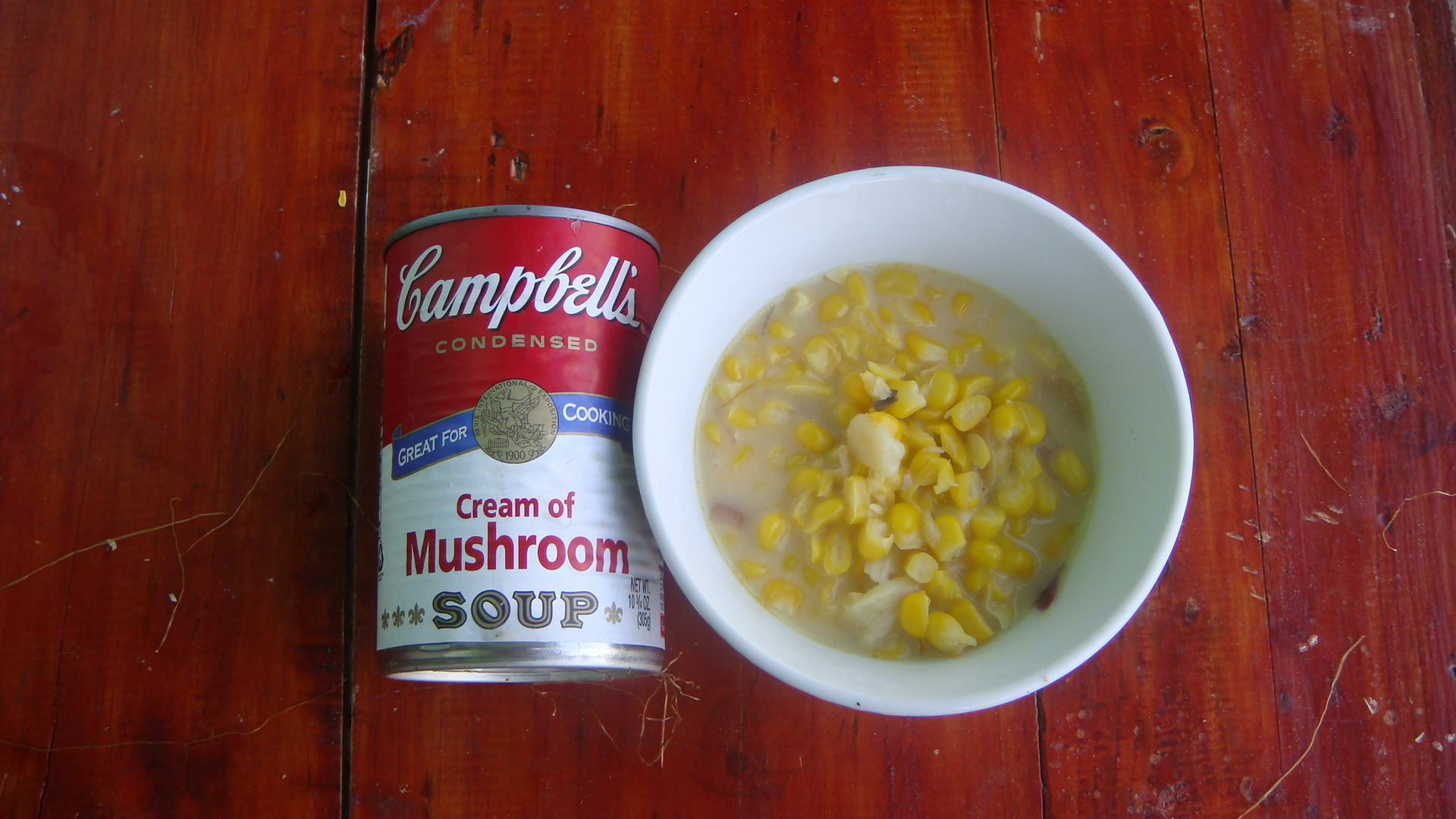 Fresh corn with (Campbell's condensed) cream of mushroom soup